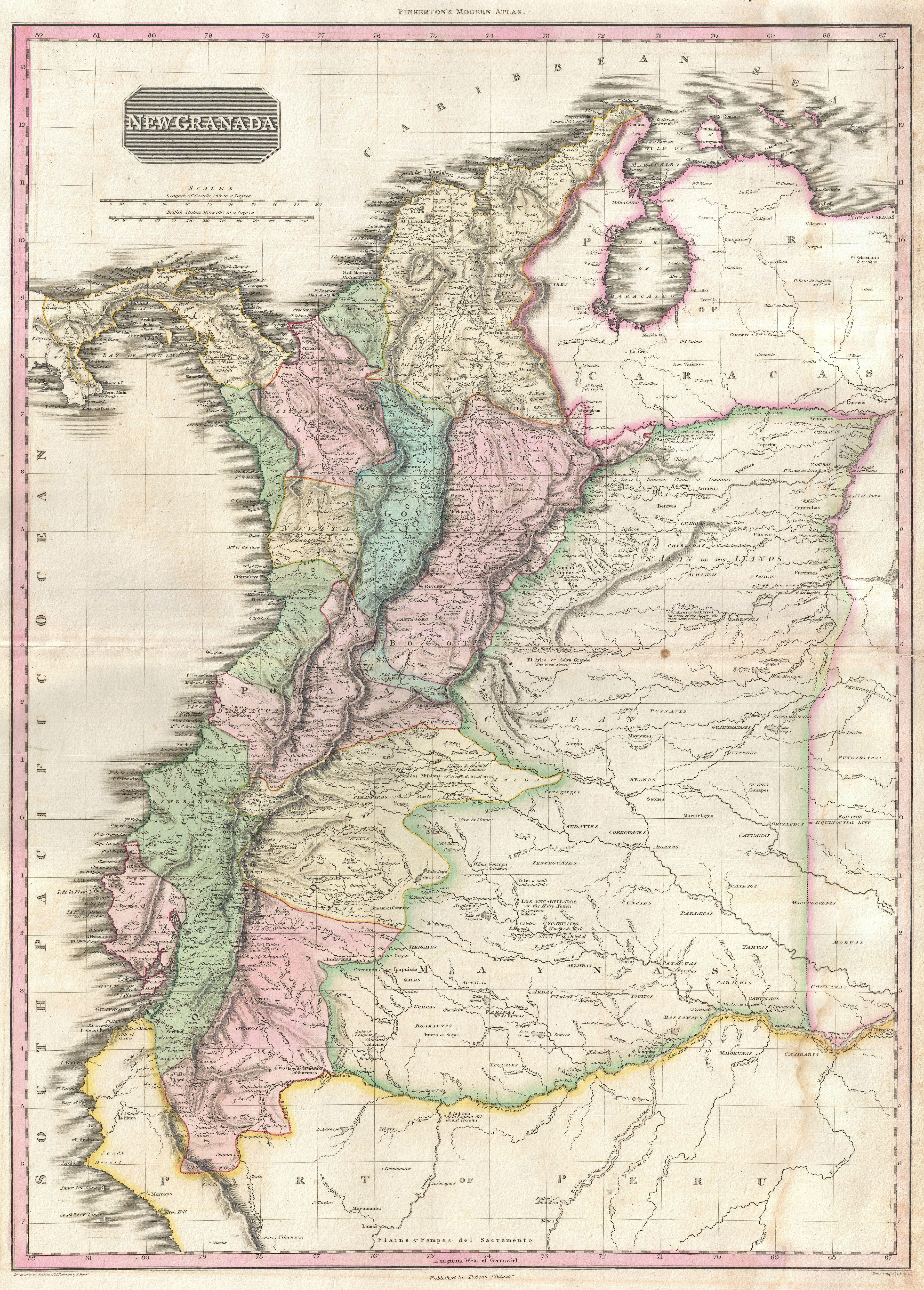 An altogether extraordinary 1818 map of the northwestern parts of South America by John Pinkerton. Covers the modern day countries of Columbia, Venezuela, Panama, and Ecuador as well as parts of Peru and Brazil. Pinkerton offers impressive detail throughout noting indigenous groups, missions, towns and cities, swamps, mountains, and river systems. Upper left hand quadrant features the title plate and two distance scales, one in British Miles and the other in Spanish Leagues. Cartographically speaking this is an often neglected part of the world - especially in the early 19th century. Though the coastlands had been well mapped early in the 16th century, the interior was rarely penetrated. The combination of mountainous terrain, daunting jungles, malaria, and unfriendly indigenous groups combine to make this area all but unexplorable - even today. Nonetheless, Pinkerton make a commendable attempt to piece together early conquistador accounts, explorer's journals, missionary records, and indigenous reports into a coherent mapping of the area. By far the most interesting aspect of Pinkerton's work in this region is his ethnographic commentary on the various indigenous tribes. He identifies the Gaberres inventors of curare, the most active poison hithero known, the Encabellados or hairy nation, and the Chiricoas a small wandering nation, among others. He also names the sites of various Spanish towns and missions along the numerous inland rivers systems that spring from the Amazon and Orinoco. Pinkerton offers commentary on rapids, portages, speculative river courses, and notes on navigation. In the more populous regions on the coast and to the west of the Andes, Pinkerton names the important cities of Bogata, Quito, Caracas, and Panama. Drawn by L. Herbert and engraved by Samuel Neele under the direction of John Pinkerton. This map comes from the scarce American edition of Pinkerton’s Modern Atlas, published by Thomas Dobson & Co. of Philadelphia in 1818.